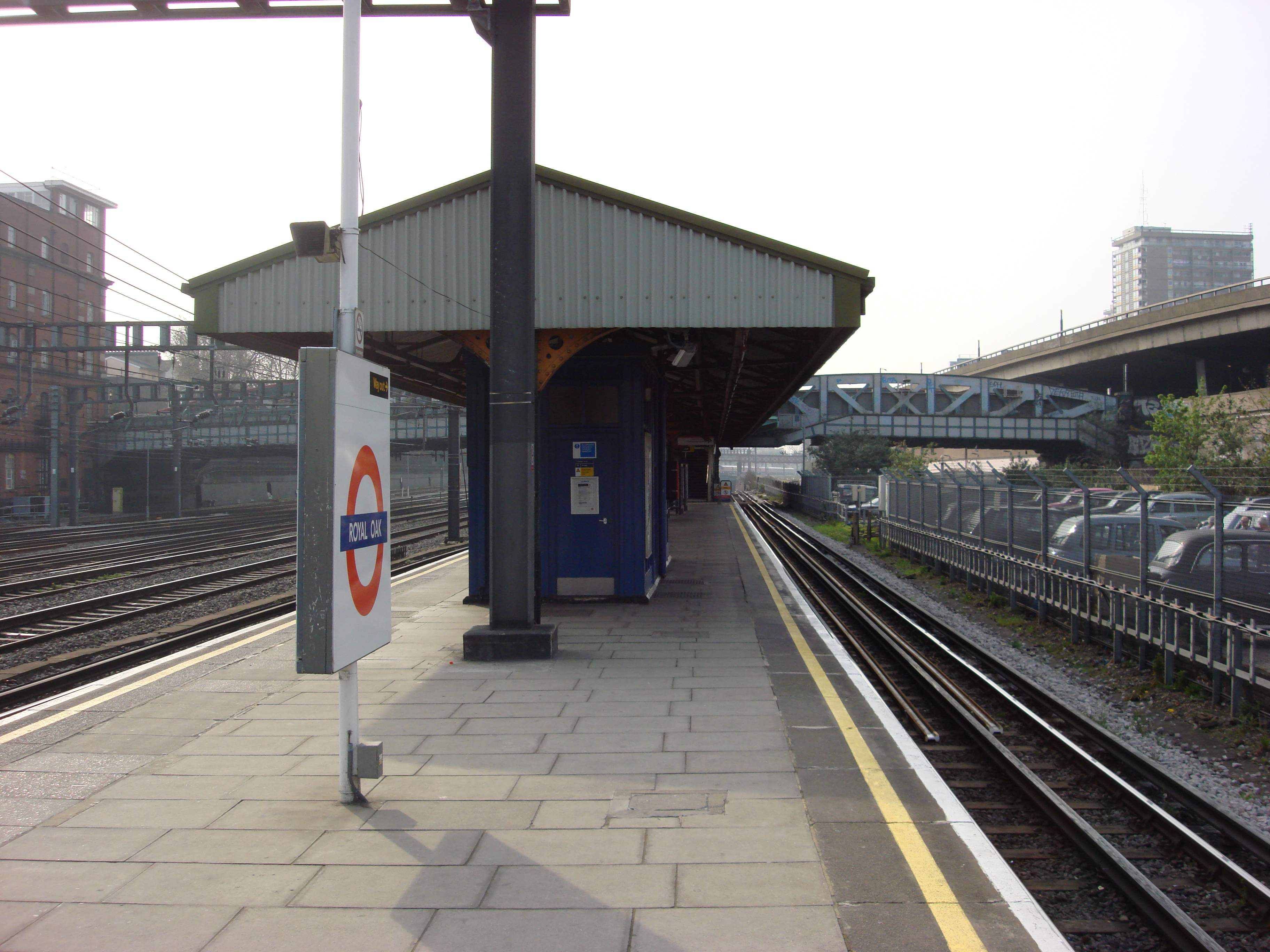 the island platform of Royal Oak tube station